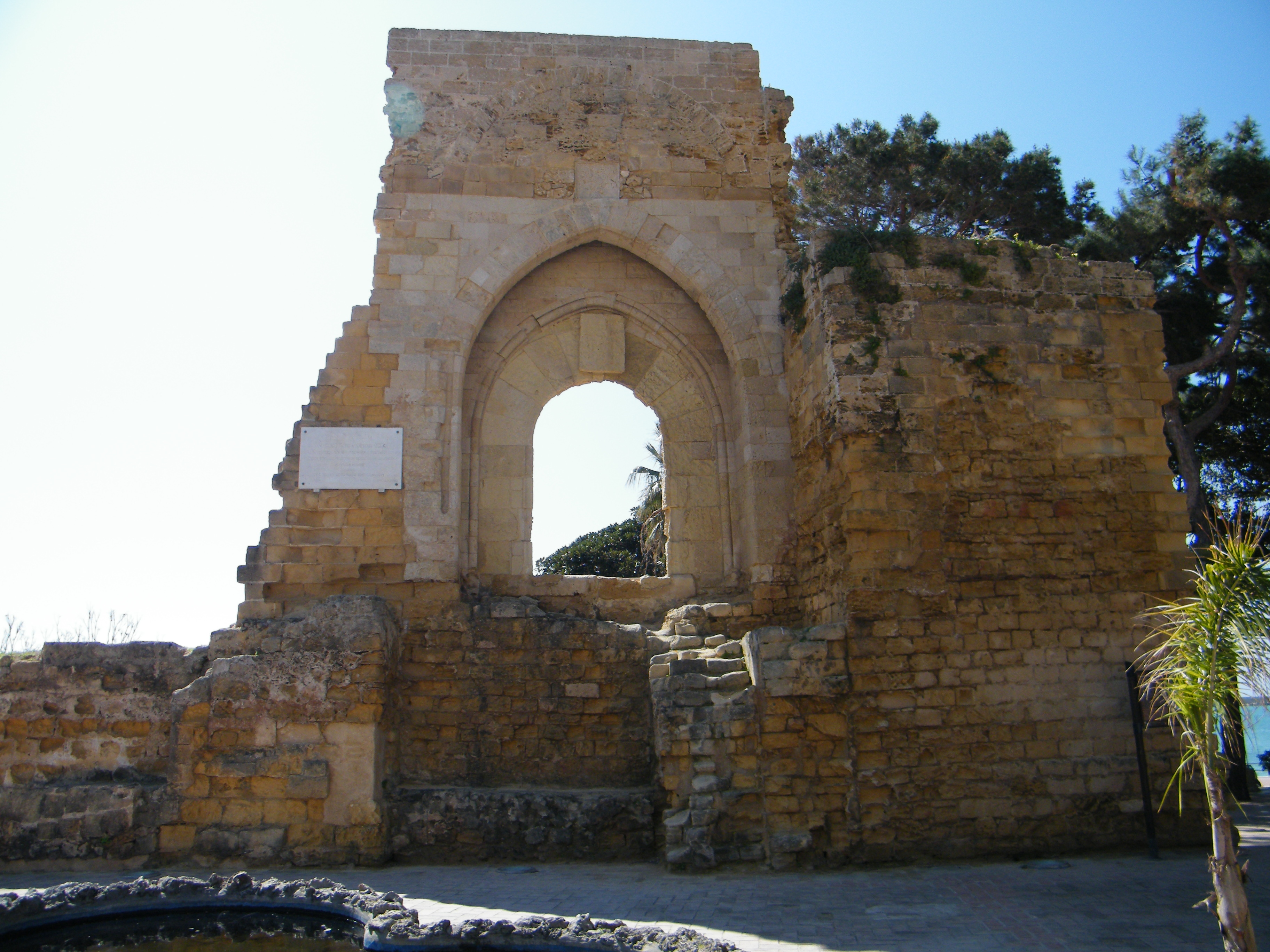 Norman Arch - Mazara.jpg